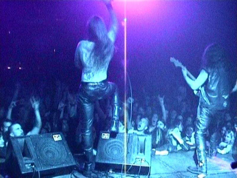 Swedish Black Metal band Marduk performing live in Paris,2003